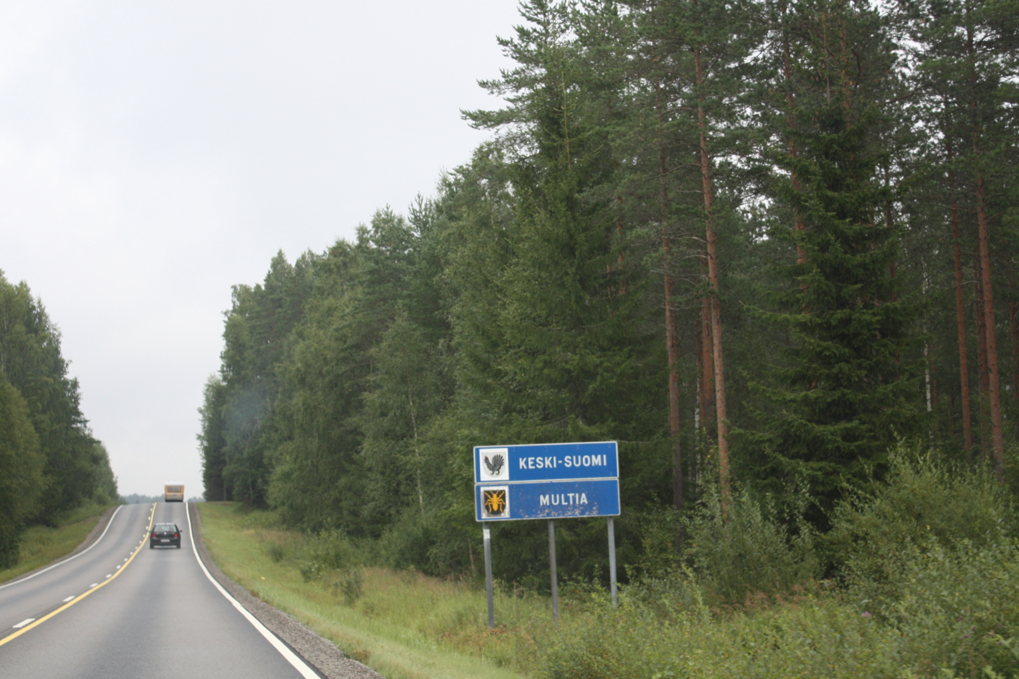 Municipal border sign of Multia and regional border sign of Keski-Suomi (Central Finland)